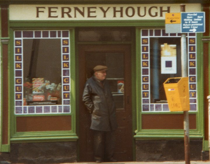 Reginald Arthur Ferneyhough (1903-1999)